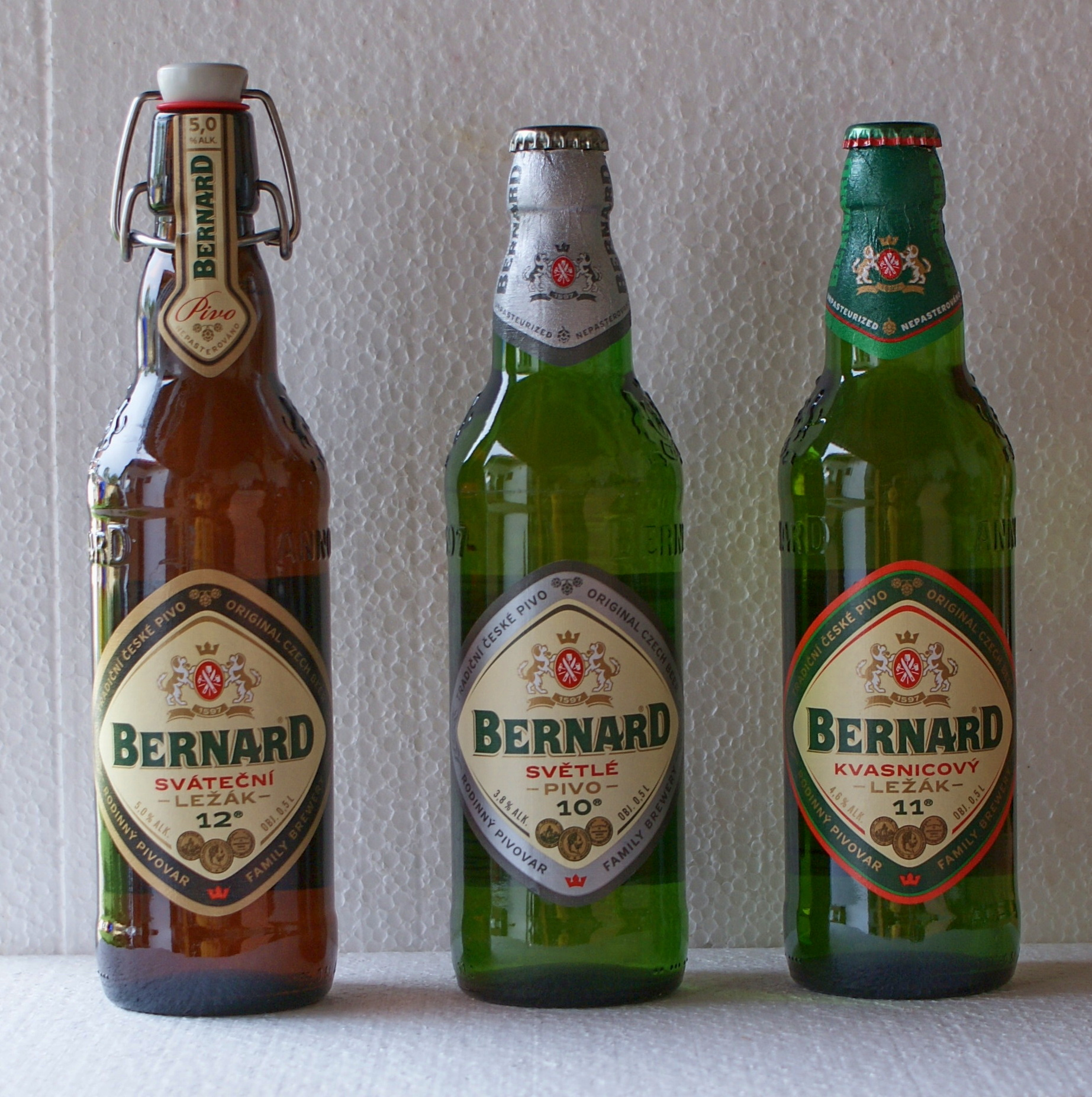 A trinity of Bernard beers, Festival, 10° and Weißbier